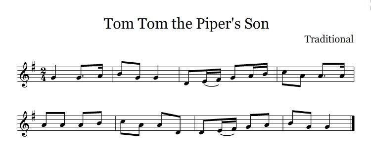 The main melody to "Tom, Tom the Piper's Son"